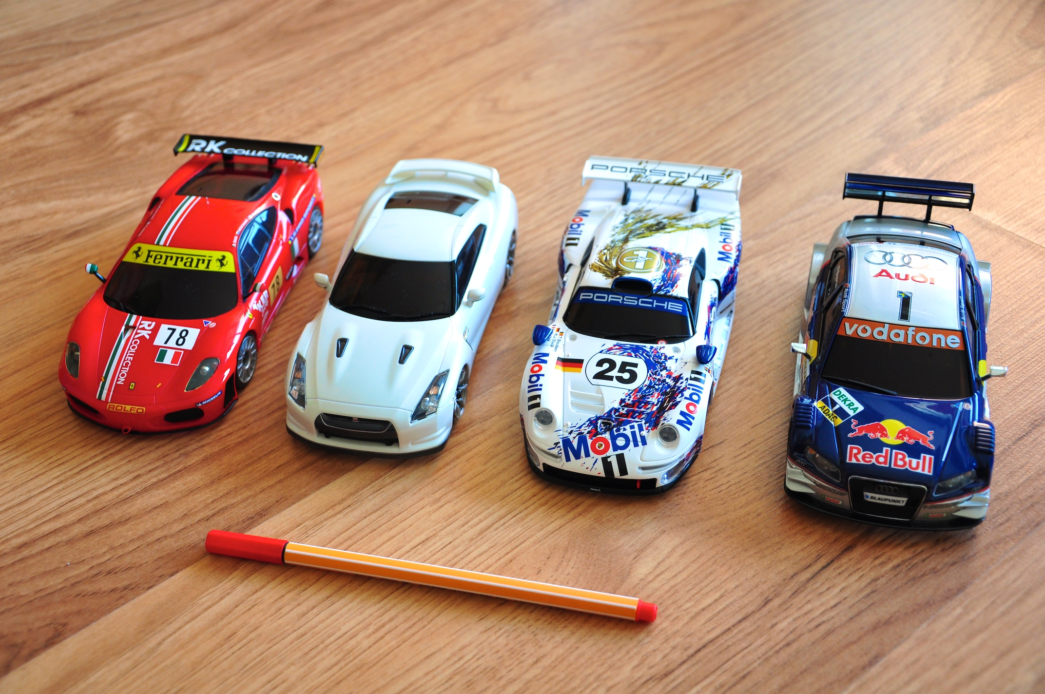 Mini-Z size